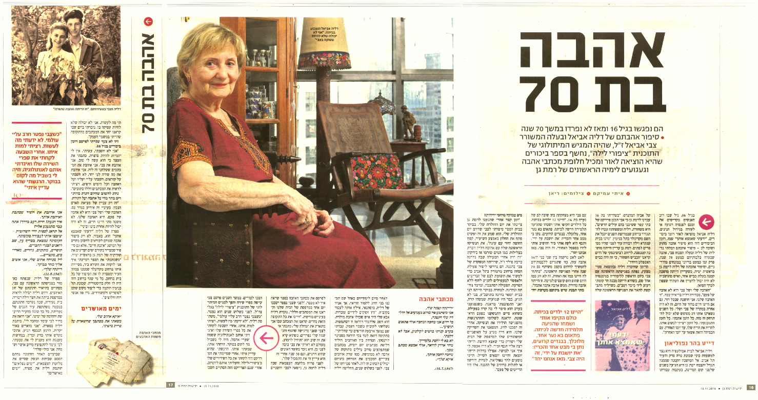 צילום כתבה על דליה אביאל בעיתון ידיעות רמת גן